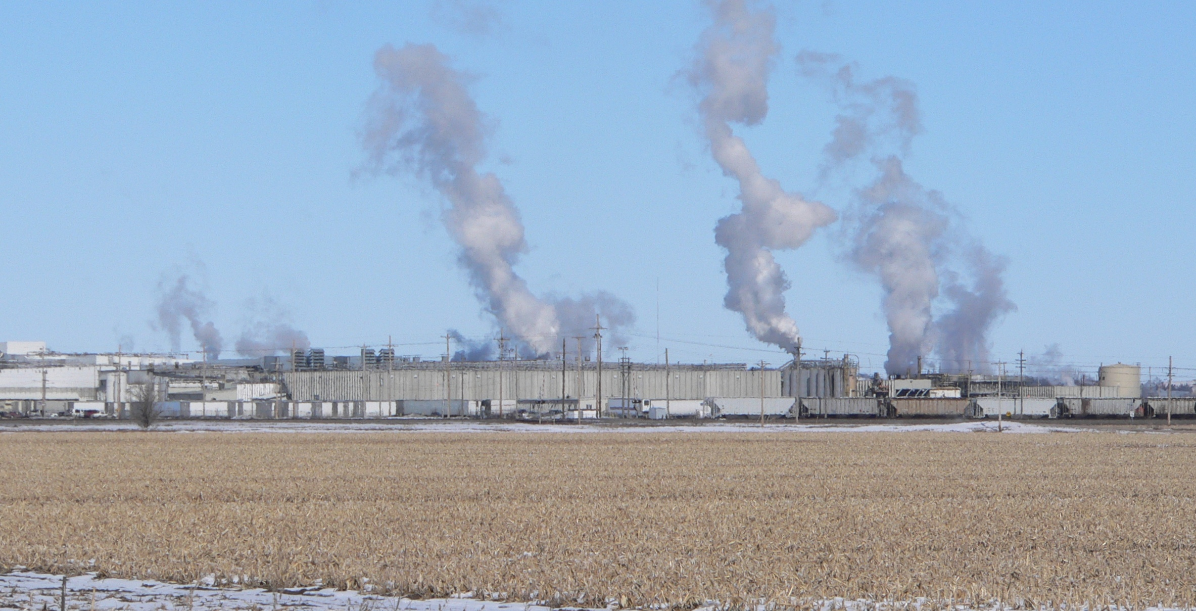 Cargill beef-processing plant just west of Schuyler, Nebraska; seen from the southwest.